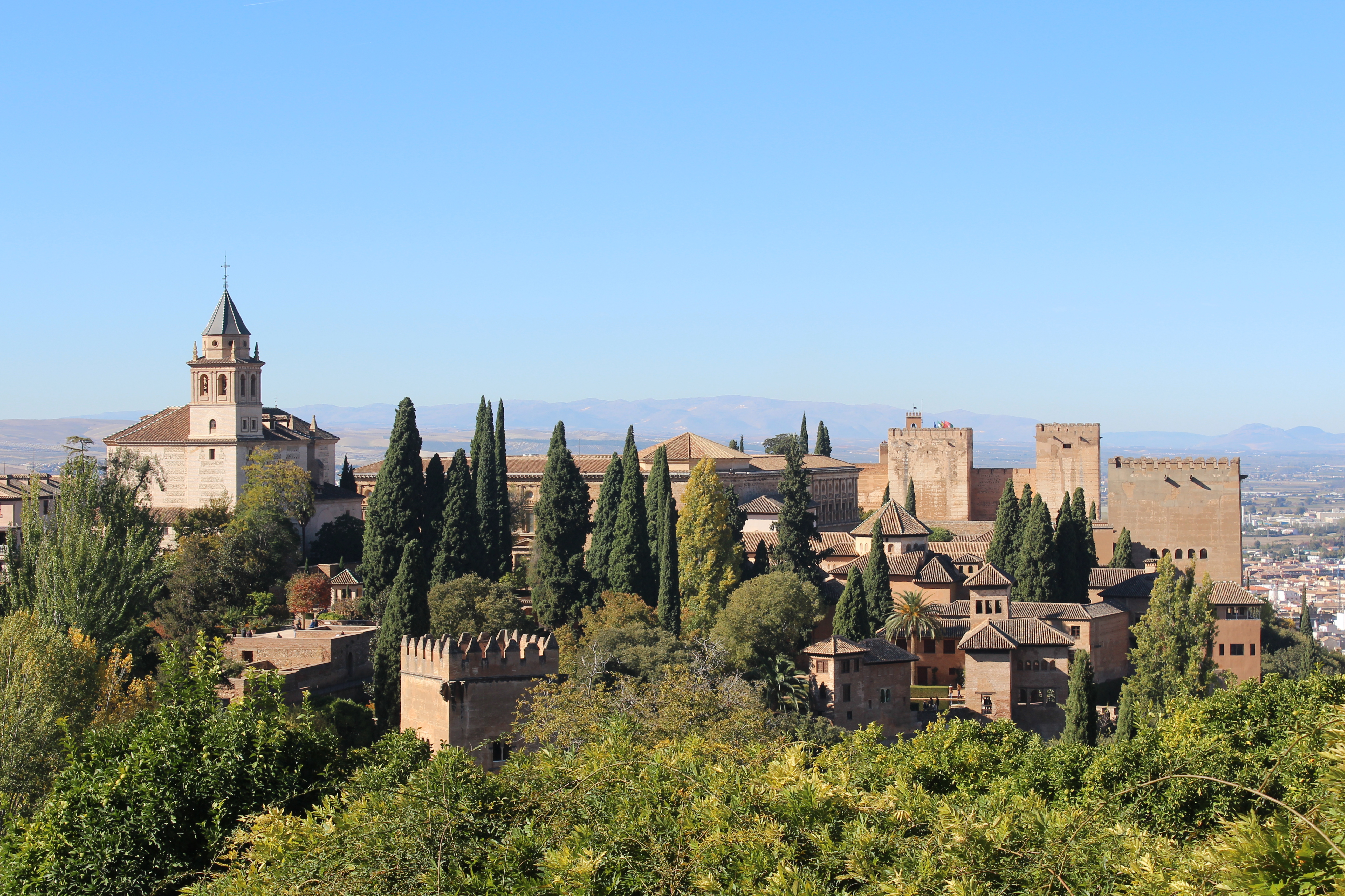 View of the Alhambra from the Generalife. The square towers to the right-hand side of the picture are the Alcazaba which probably dates from the eleventh century. The Church of Santa Maria (the tallest building in the image) was completed in 1607.